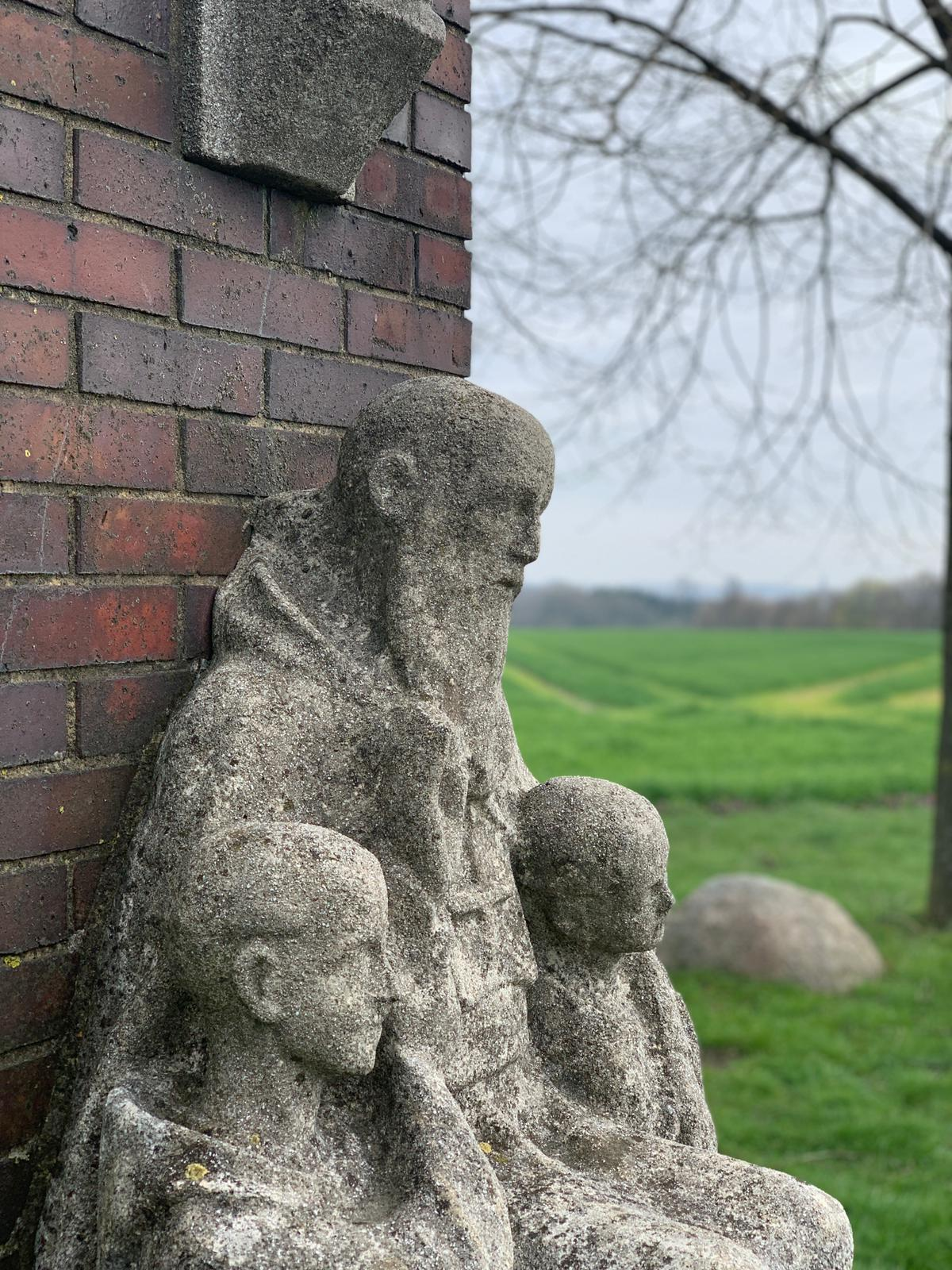 Ludgerirast, highest point of Coesfeld mountains, where Ludgerus, as the legend tells, gave a last blessing to the diocese of Mimigernaford (Münster) the day before his death, March 26. 809. Monument by Dominikus Zwernemann OSB (1901–1983 from monastery Gerleve), dated 1934